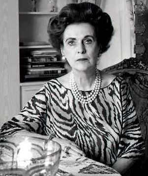 Portrait of Margarett Duchess of Argyll in her dining room in The Grosvenor House London taken by Allan Warren